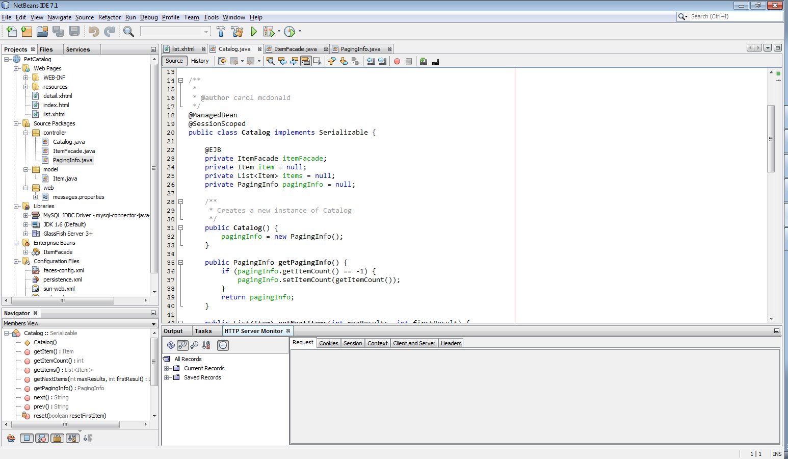 Netbeans global